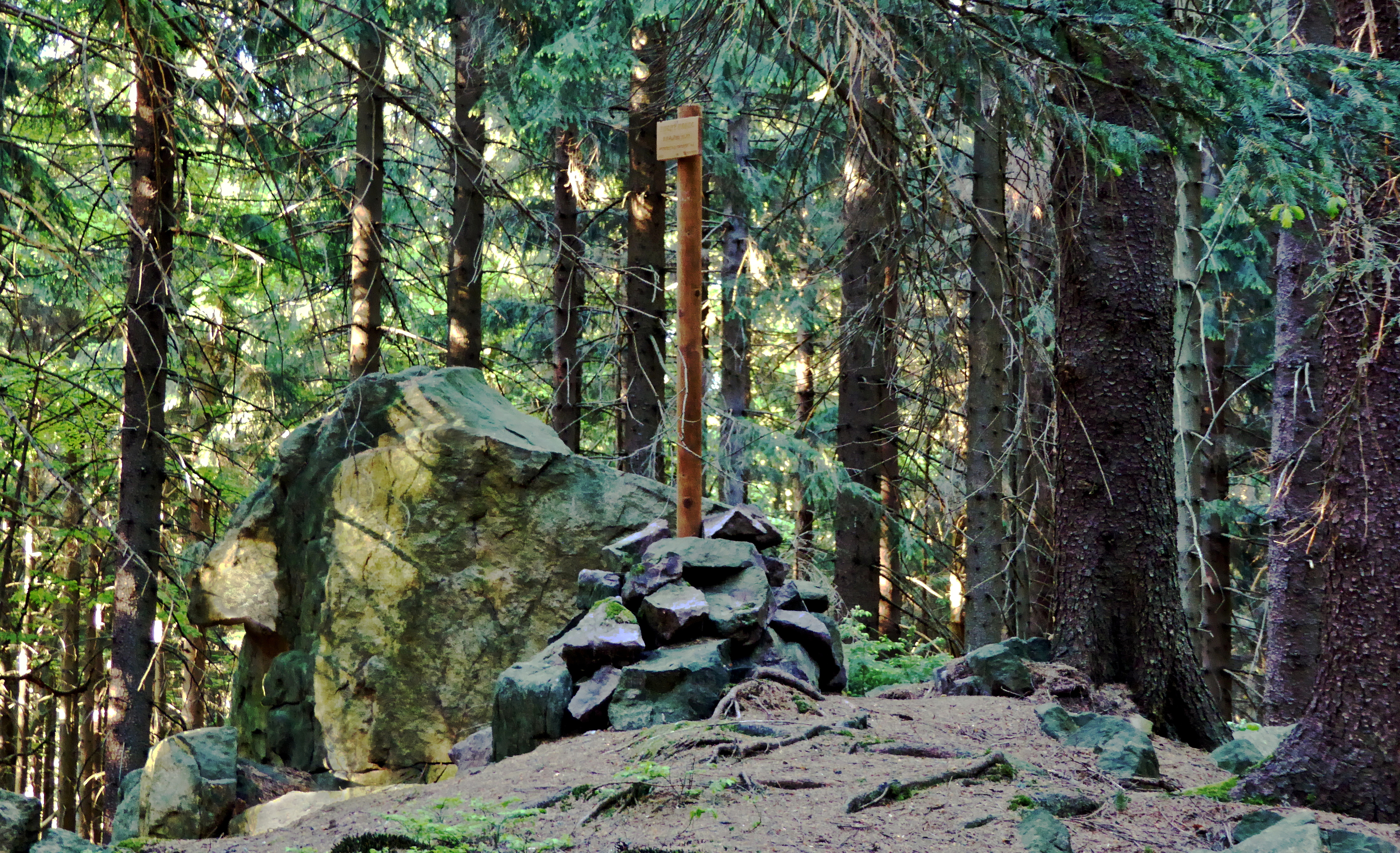 The dry hill with top of terrain at an altitude of 816 m according to the contour map is the geographical name of the forest land in the georelief of "Devítiskalská" Highlands (geomorphological district). Protected landscape area "Žďárské" hills. The trigonometric point is titled "At the kitchen", a geodetic marker with a leveling of 814.83 m above sea level. Within administrative the height point and the top of the terrain are located on the cadastral area of Blatiny, in the part of the small town "Sněžné" in the district Žďár nad Sázavou, belonging to the Vysočina Region in the territory of the Czech Republic. Photo-location: Czechia, "Vysočina" Region, small town "Sněžné", cadastral area Blatiny, "Devítiskalská" Highlands, Dry hill, forest location with trigonometric point "At kitchen" with leveling (815 m asl).